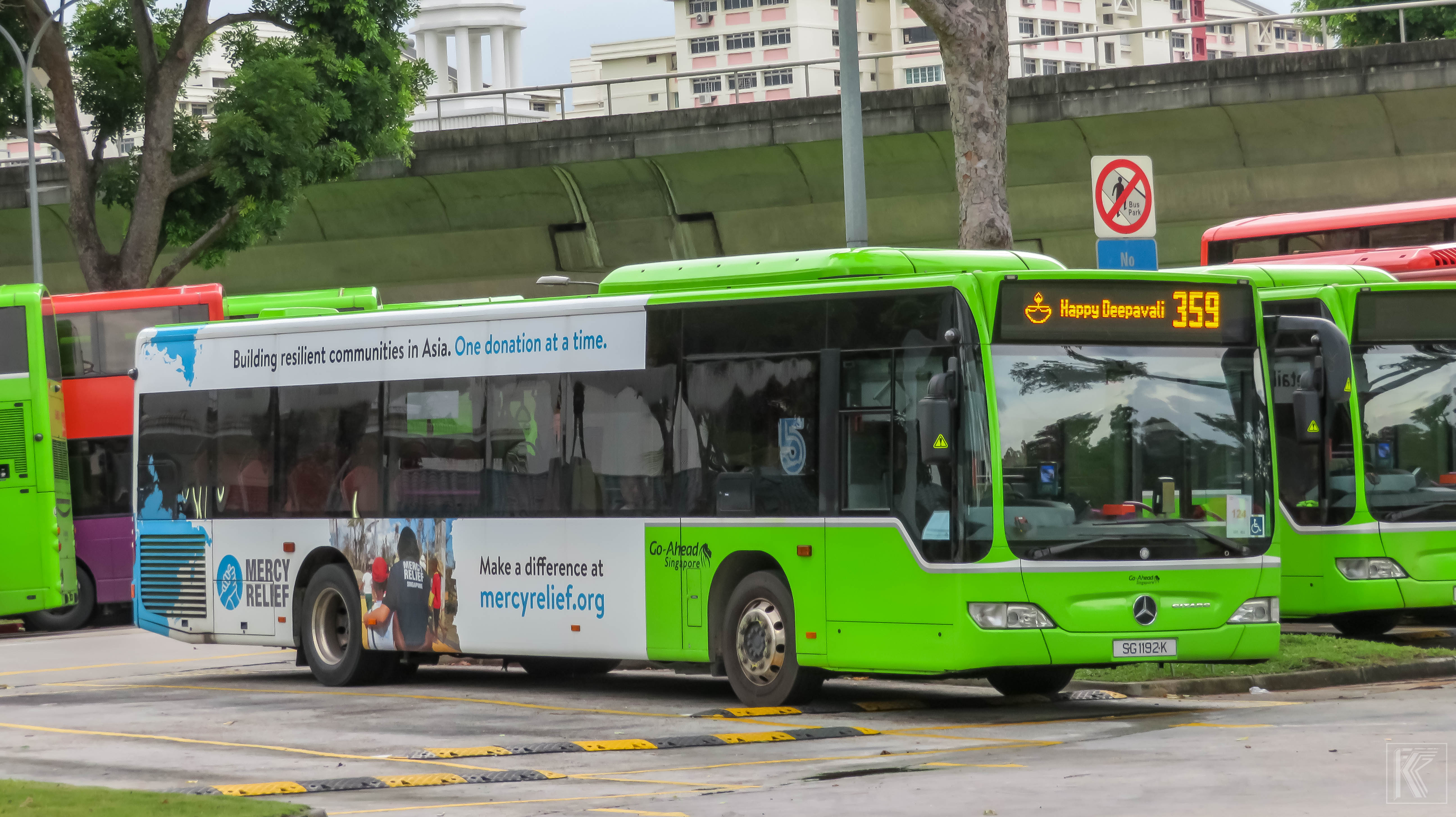 SG1192K - 359 Mercy Relief.